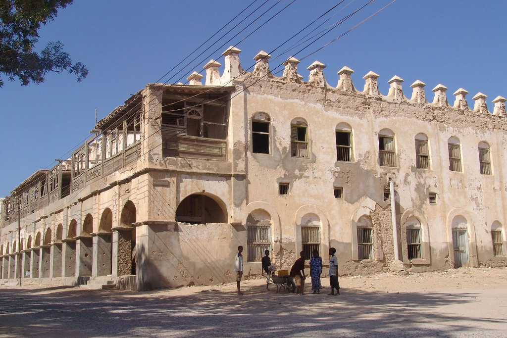 Building in Berbera, Somalia. Image taken by Charles Fred on flickr. The creator has granted GFDL licensing and permission for use in the wikimedia project.